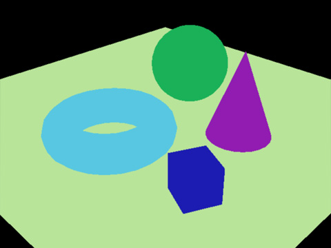 Deferred rendering breakdown : Color pass